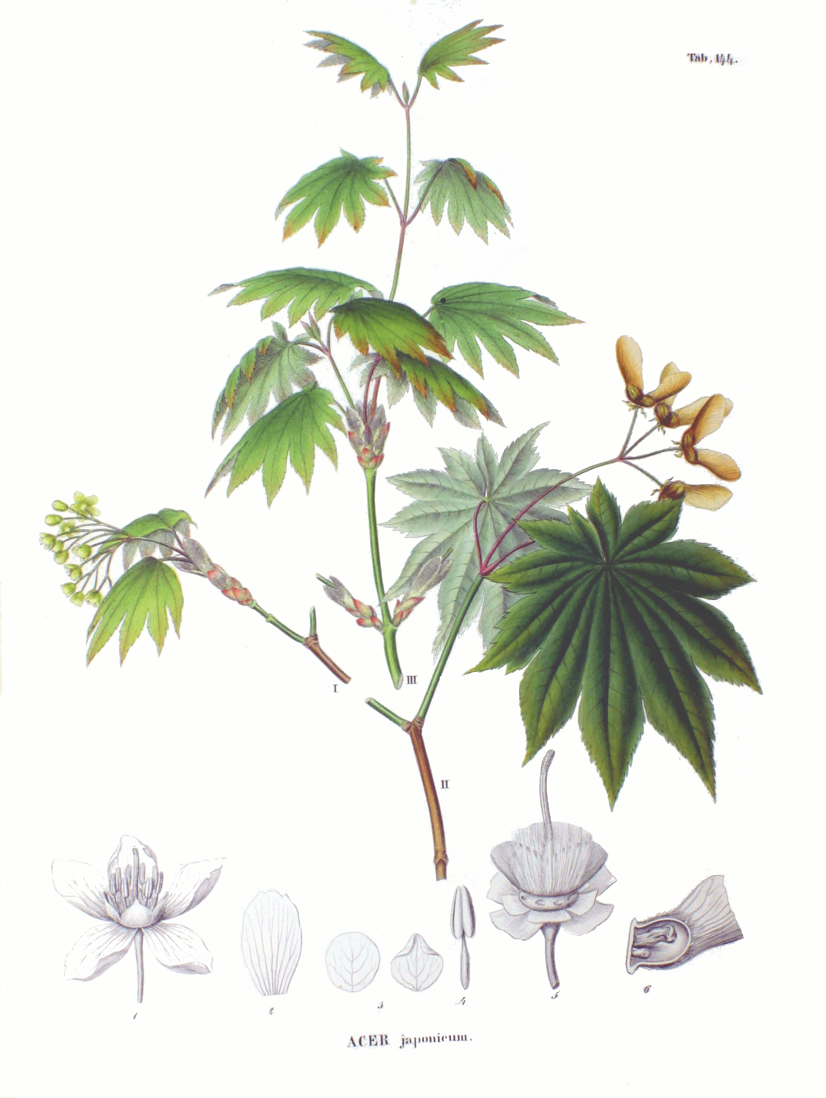 Plate from book